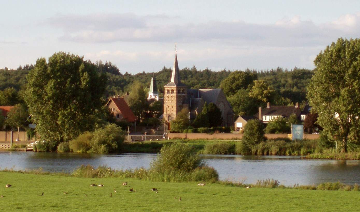 Mook at the Meuse River, Netherlands